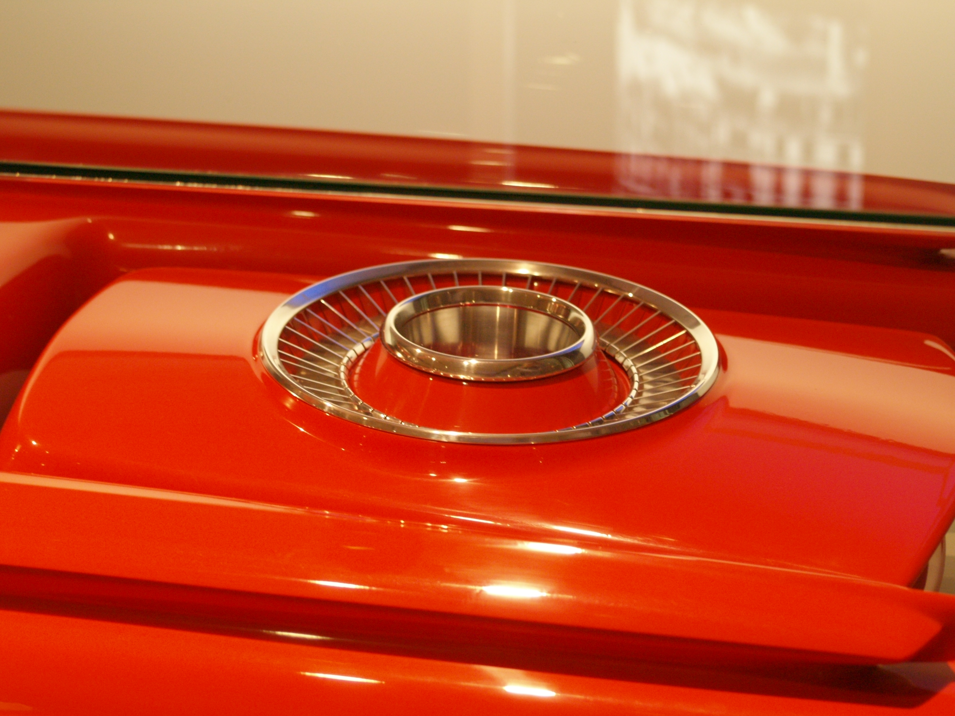 Ford Nucleon, a concept car (1958) in the German Museum of Technology in Berlin